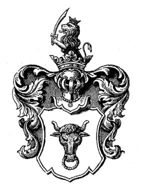 Coat of arms Wieniawa from Herbarz polski by Kasper Niesiecki